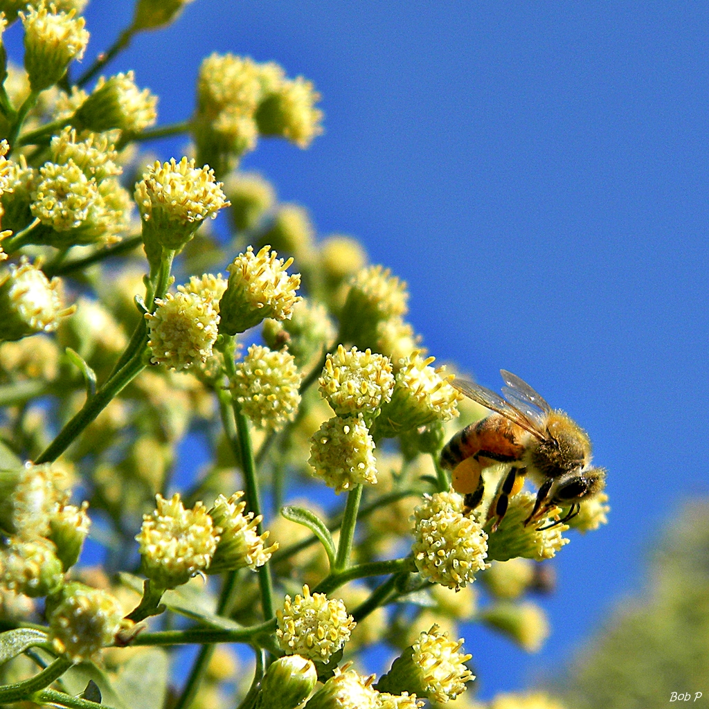 A male Baccharis bush at Jonathan Dickinson State Park. Baccharis are dioecious and have separate male and female plants! These plain looking male flowers have a heavenly fragrance and the entire shrub is literally buzzing and vibrating with insect activity! Butterflies, bees, wasps, flies and beetles abound with the cast of characters constantly changing. This is appropriate for a plant who's genus is named after Bacchus (Dionysus), the god of wine and inspired madness! The seeds of the female plants are poisonous but the leaves & roots have been used in the brewing of healing concoctions. Most of the year you would not notice this humble shrub but when in bloom, they are the shopping mall's of the insect world and the bright, white female flowers are visible from a great distance.